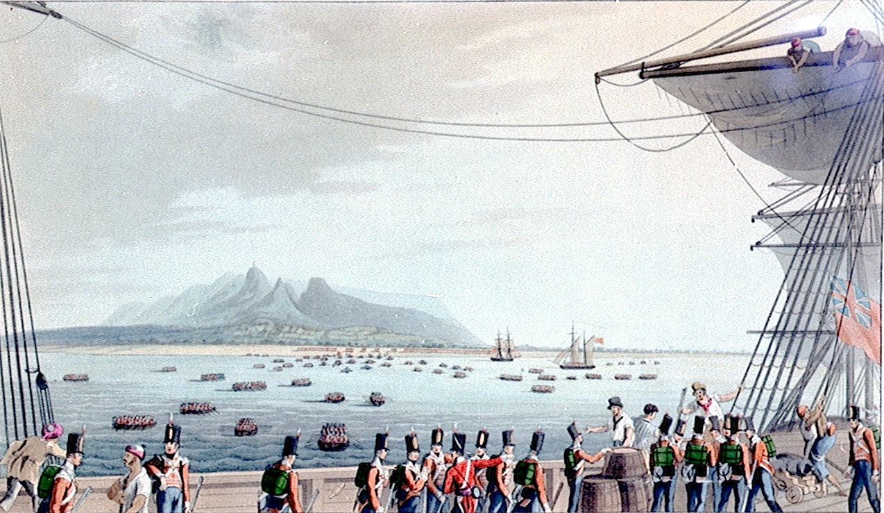 Isle of France No.1. View from the Deck of the Upton Castle Transport, of the British Army Landing